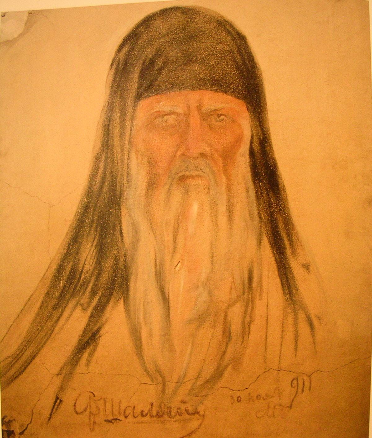 Self-portrait of Russian opera singer Feodor Chaliapin in the role of Dositheus in "Khovanshchina" by M.P.Mussorgsky